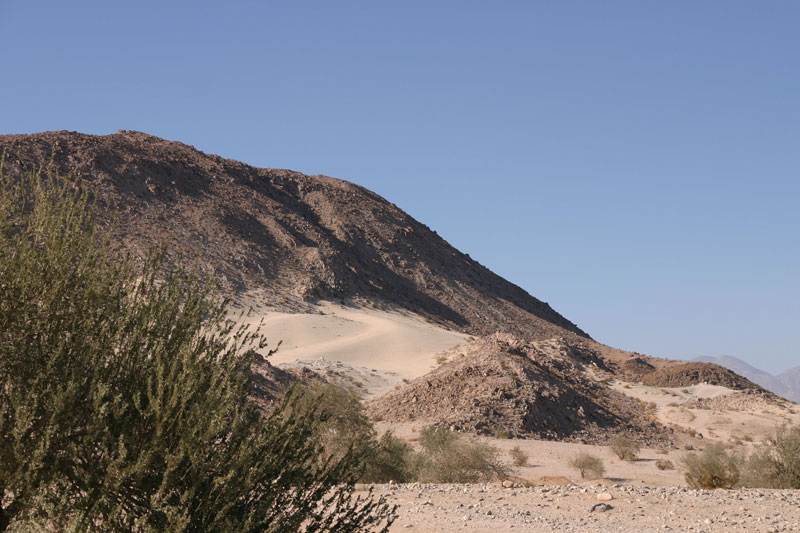 "Blowsand", a popular off-roading attraction at Ocotillo Wells, California